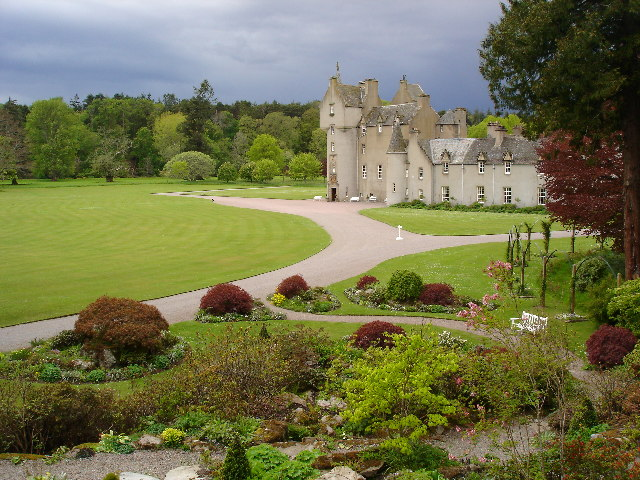 Ballindalloch Castle from the Water Garden.